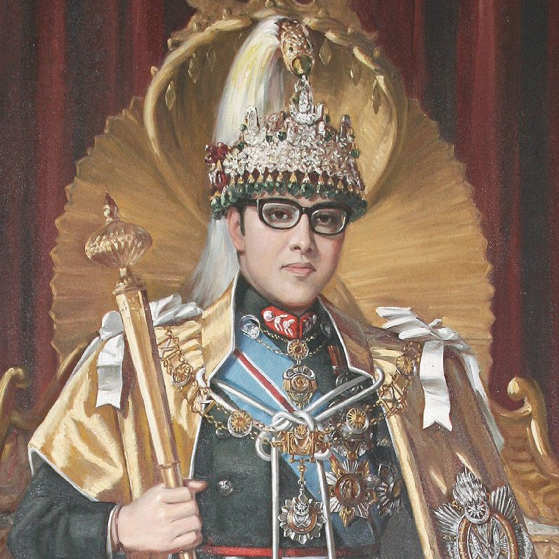 His Majesty King, Birendra Bir Bikram Shah